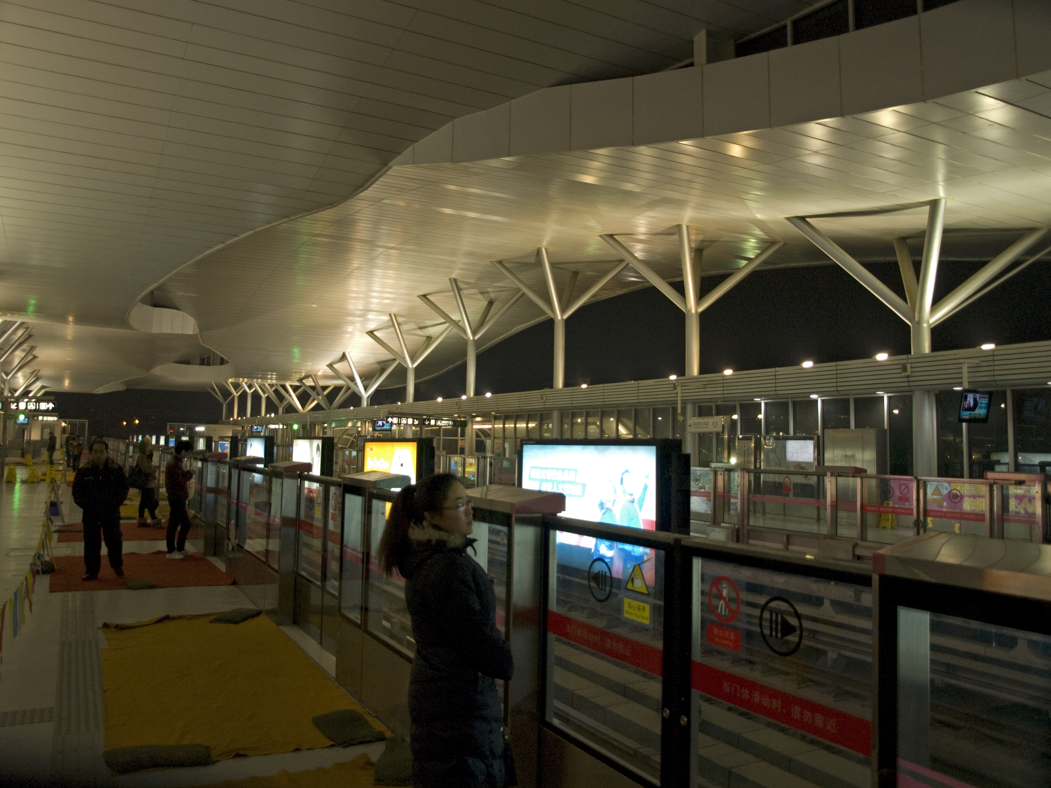 Jiugong station, Beijing Subway